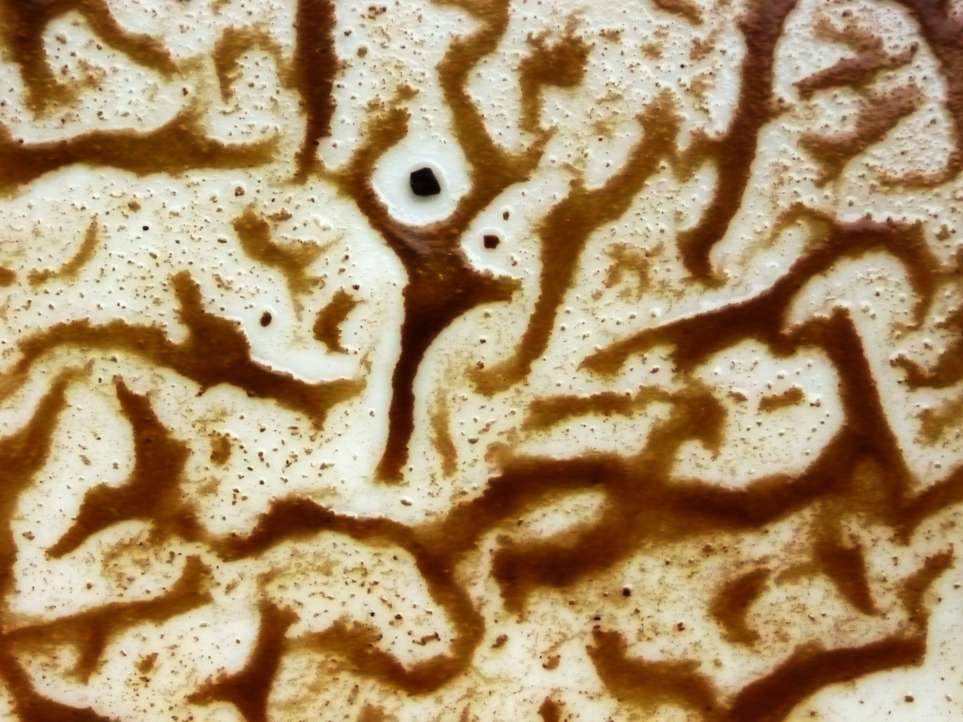 Coffee ground in a white porcelain cup